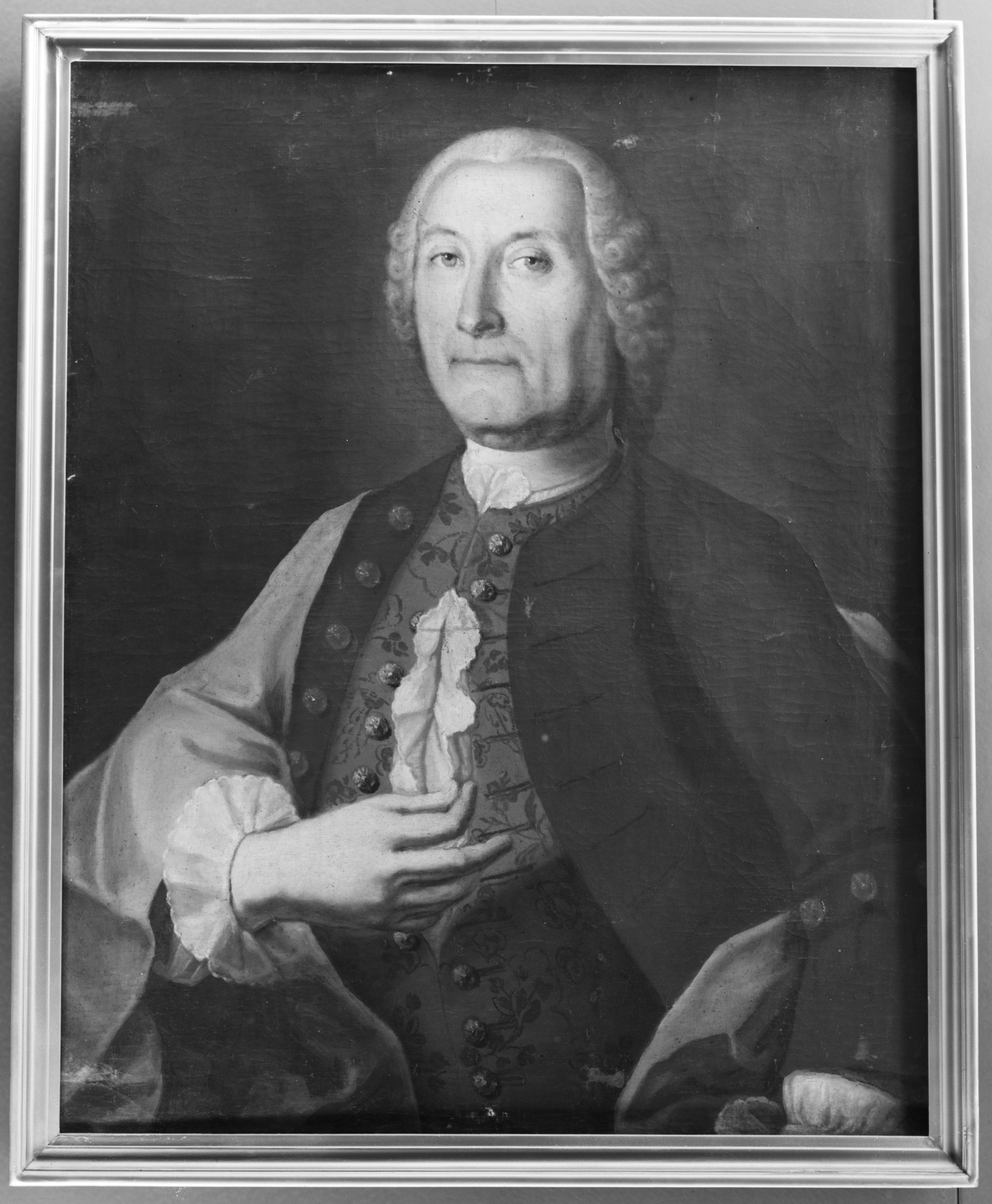 Painting of the Swedish-Finnish goldsmith Jonas Lexell (1699–1768).